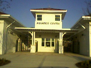 A picture of the new Aquatics Center in Lake Eva Park of Haines City, Florida.